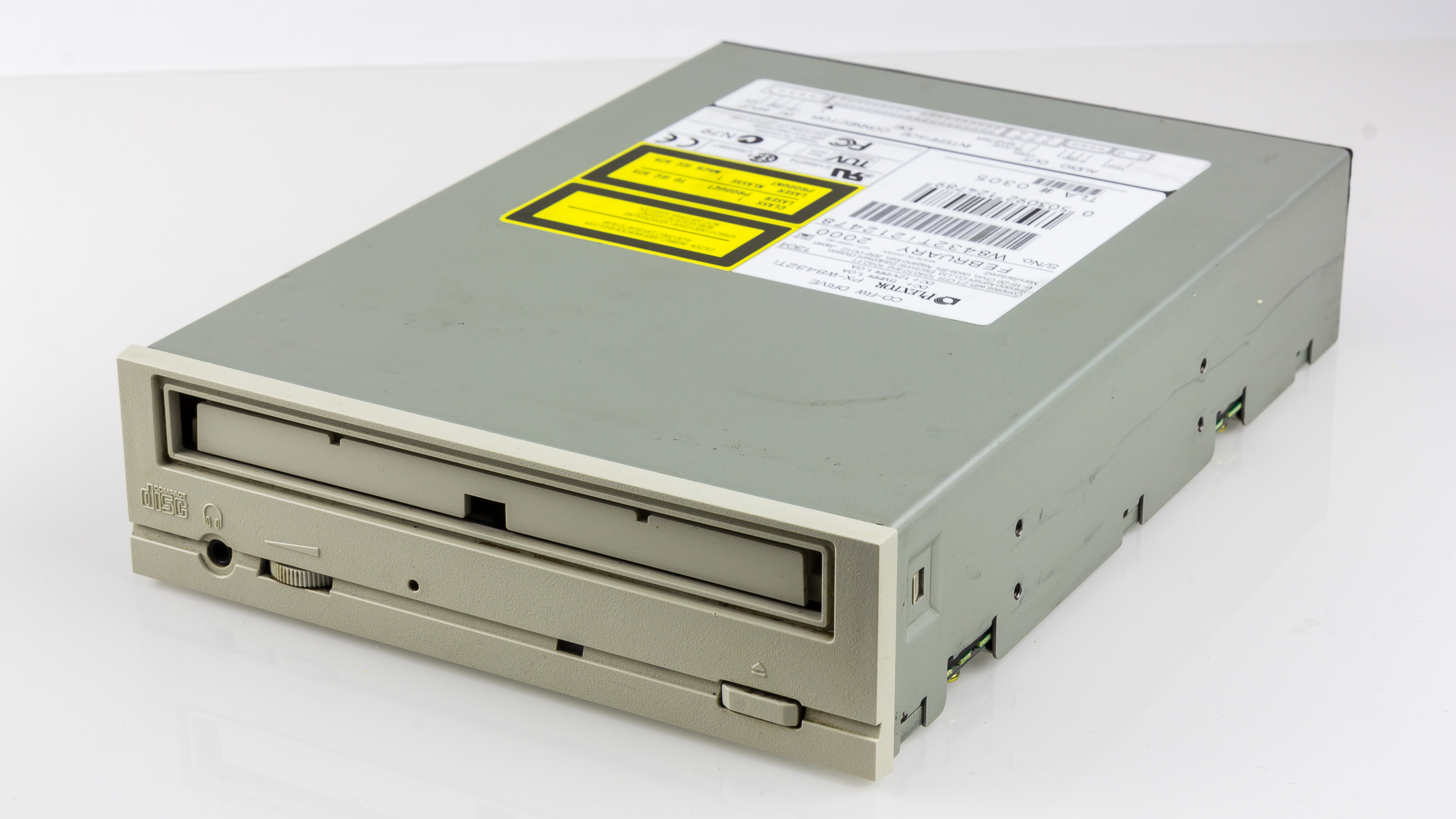 Plextor PX-W8432Ti CD-RW-Drive